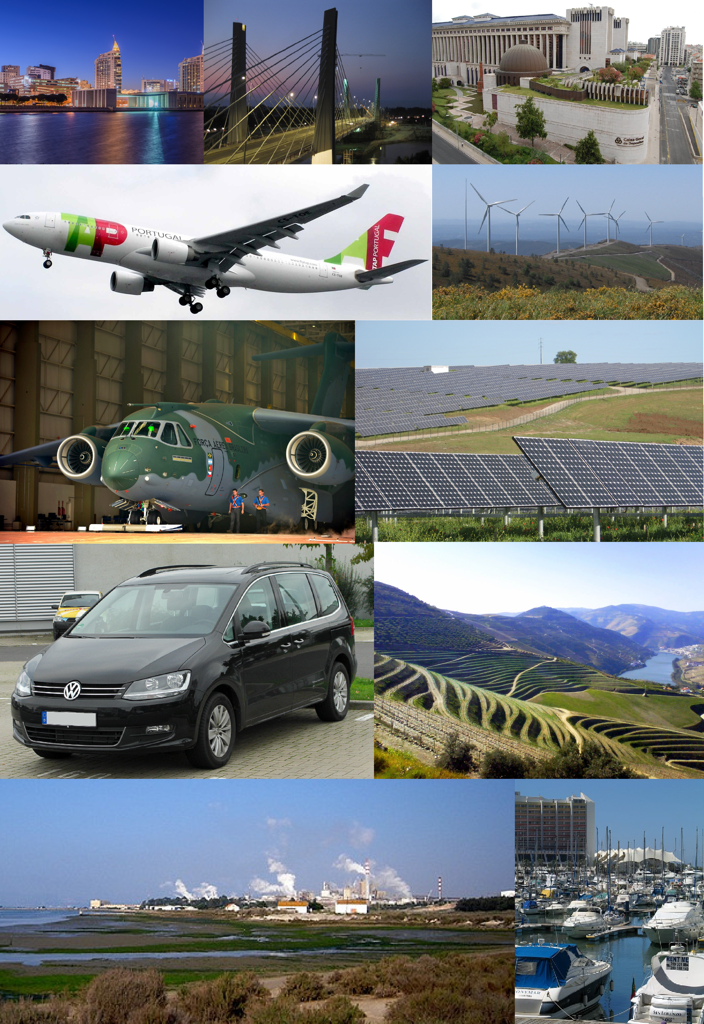 Economy of Portugal